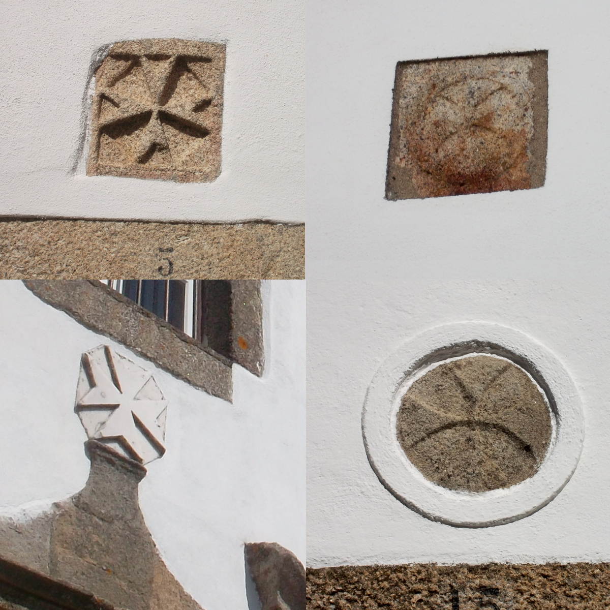 Maltese and Alisee crosses on houses in Portuguese village of Marvão, denoting allegiance to the Knights Hospitaller